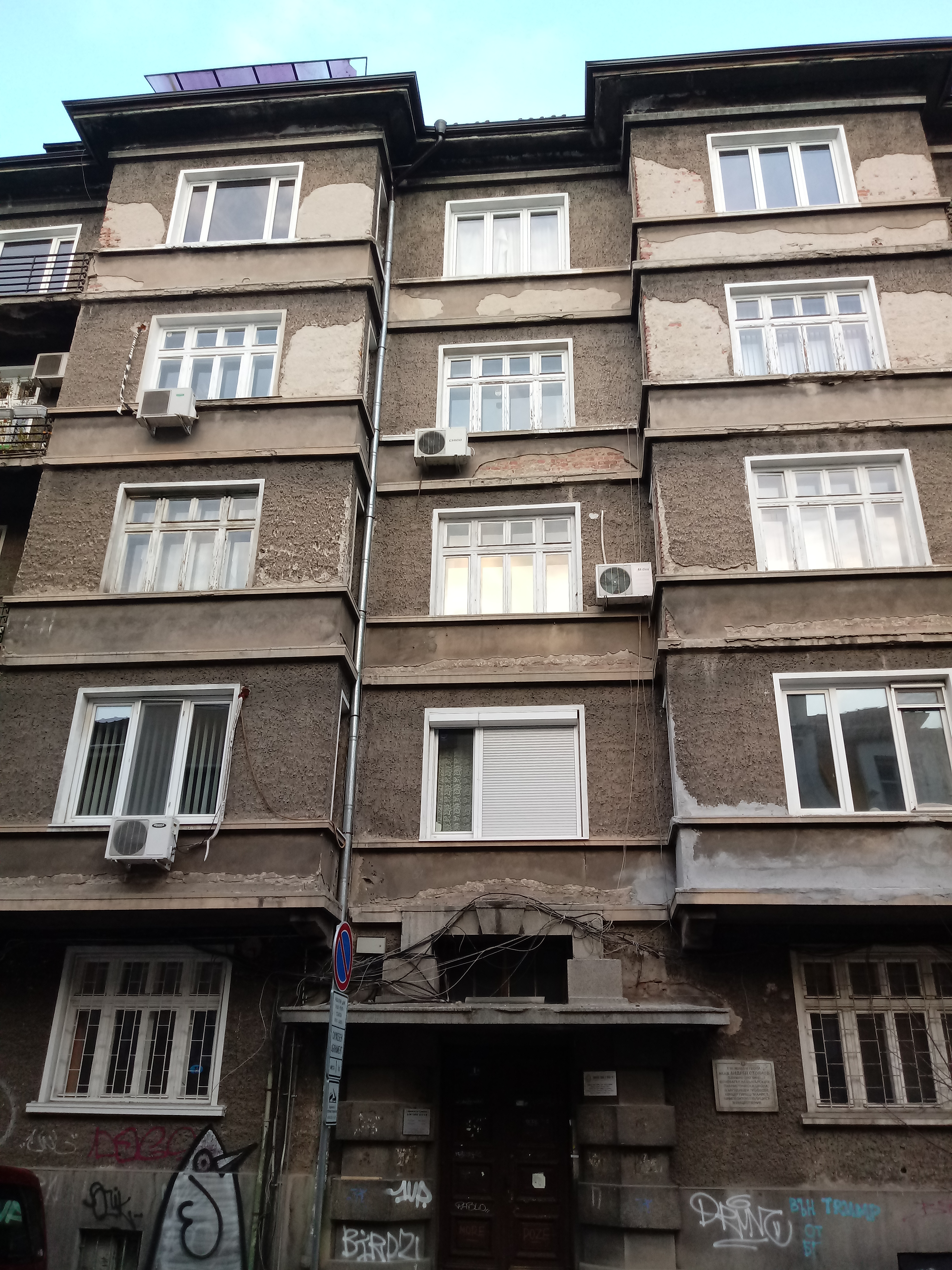 Andrey Stoyanov home with memorial plaque, 1A Racho Dimchev Str., Sofia